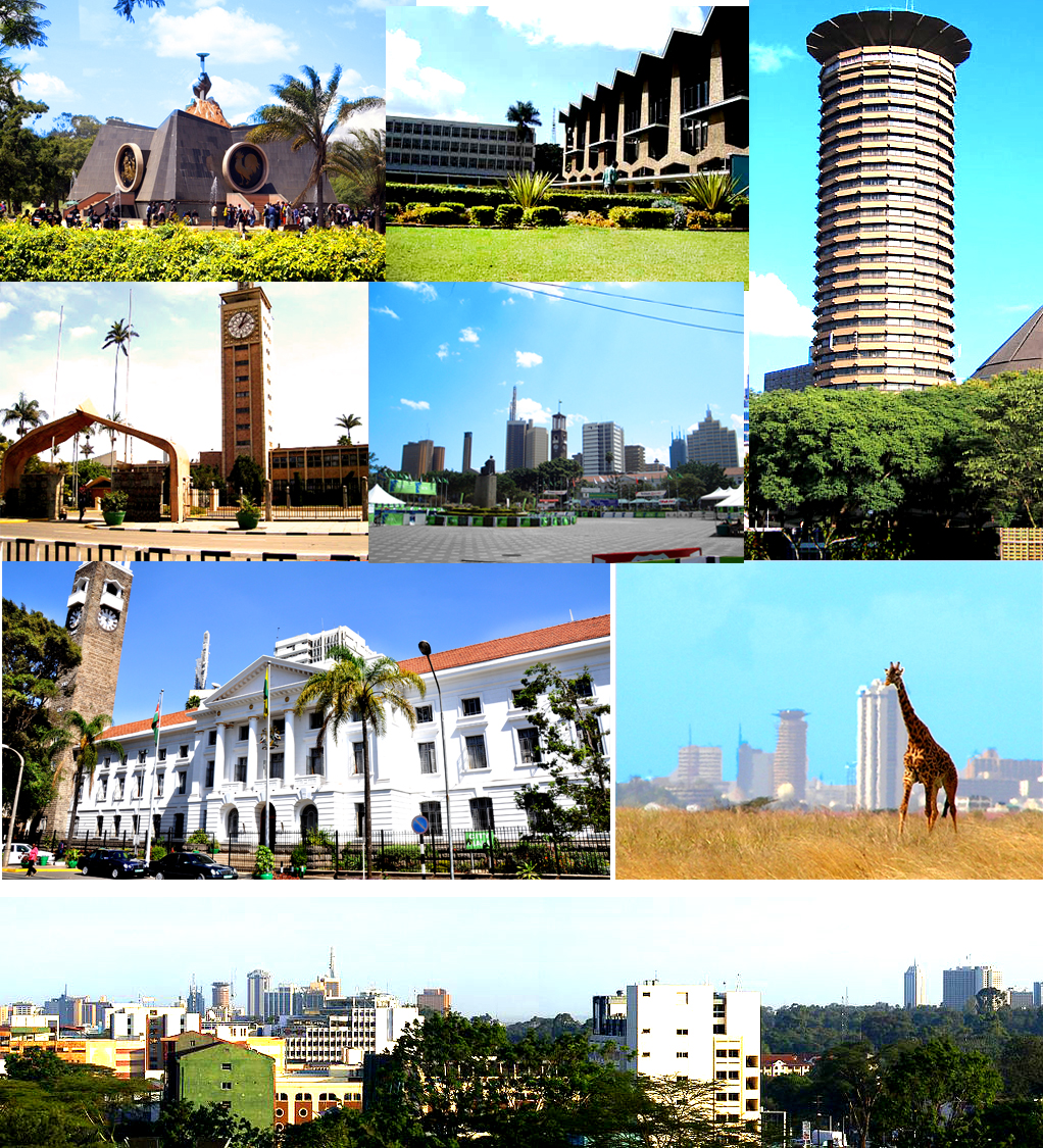 Nairobi MontageKiswahili: Picha za Mji wa Nairobi